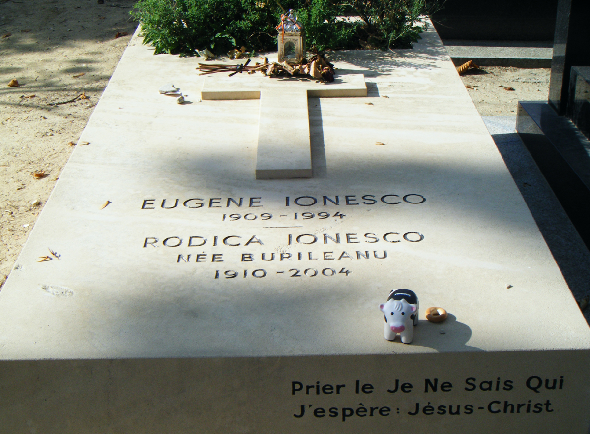 Tombstone of Eugene Ionesco